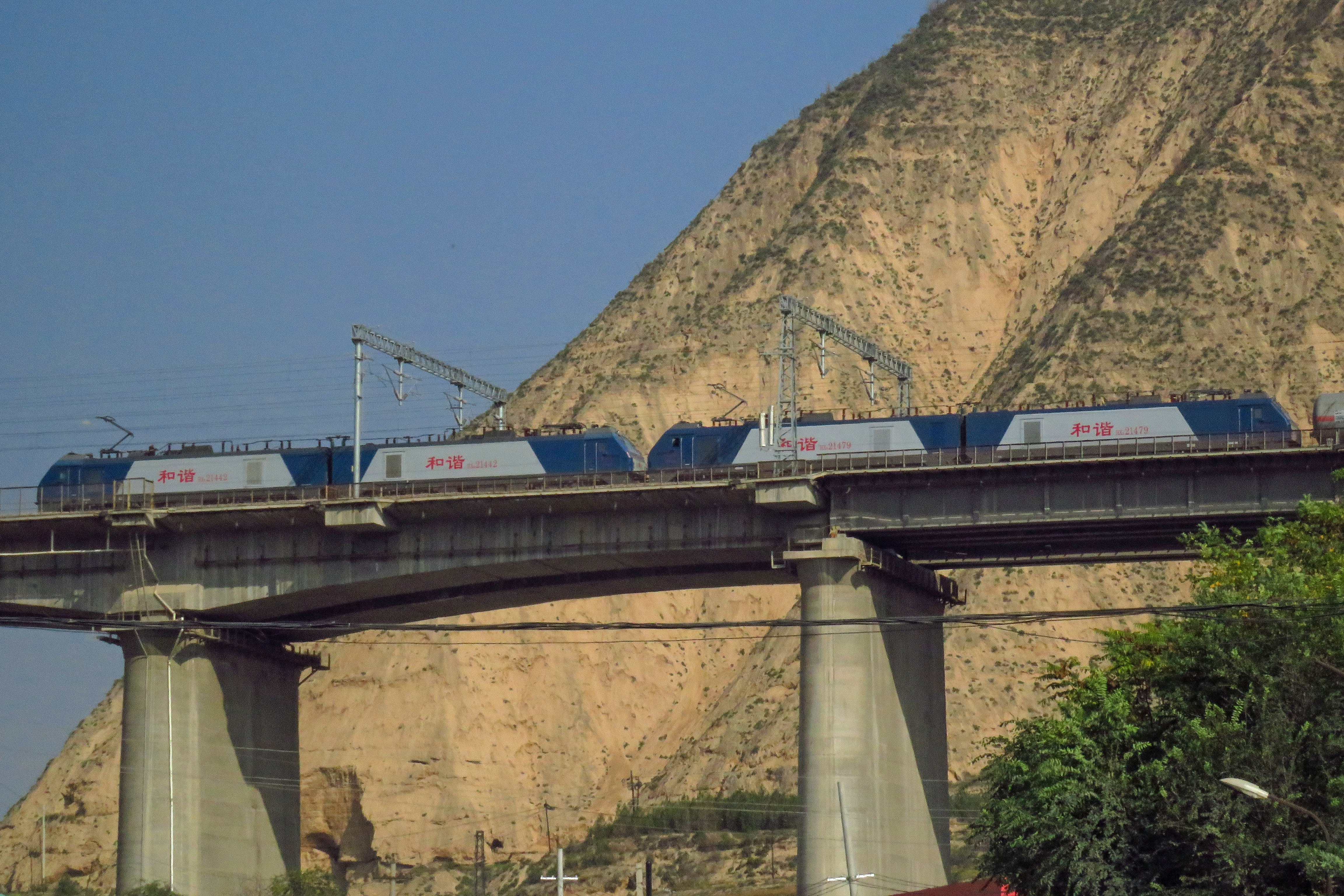 Taken near the entrance of G30. This freight train was seen exiting from Luotuoxian Tunnel on Lanzhou Northern Ring Railway.